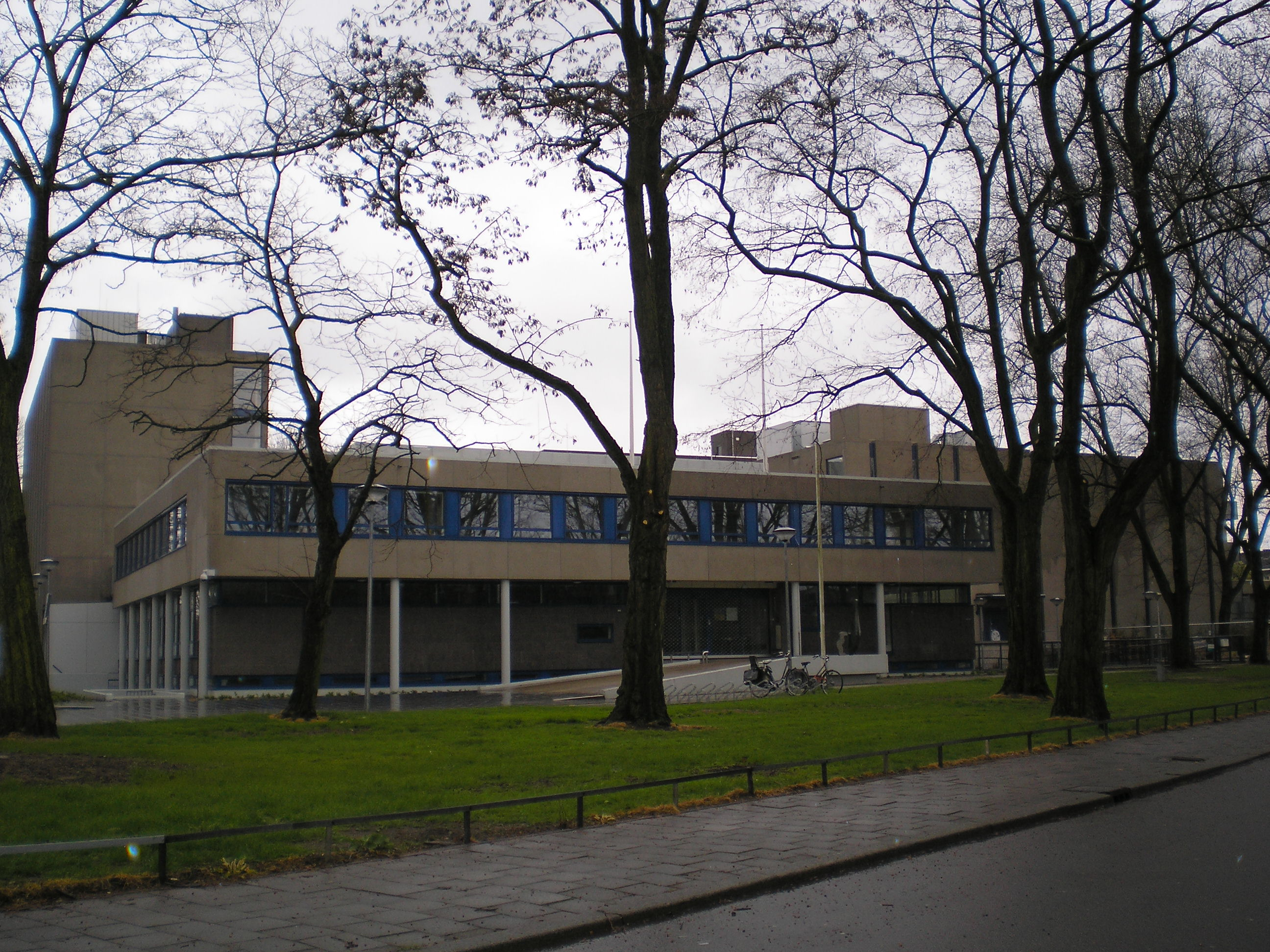 Municipal archive of the Alexander Numankade 199-201 in Utrecht in the Netherlands